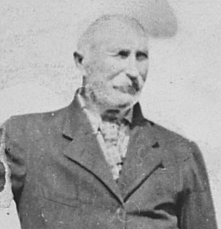 The author and guardian of the lighthouse of île aux Perroquets Placide Vigneau, archipelago of Mingan.